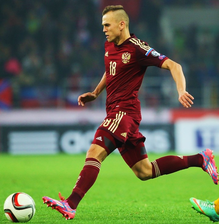 Denis Cheryshev